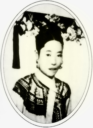 Photograph of the Qing Dynasty Empress Longyu